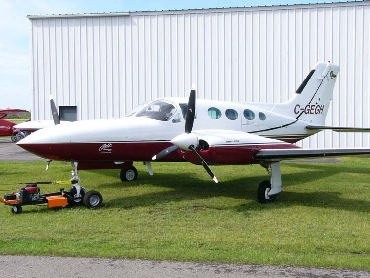 Cessna 421B (C-GEGH). I took this photo at Smiths Fall Ontario on 04 June 2006